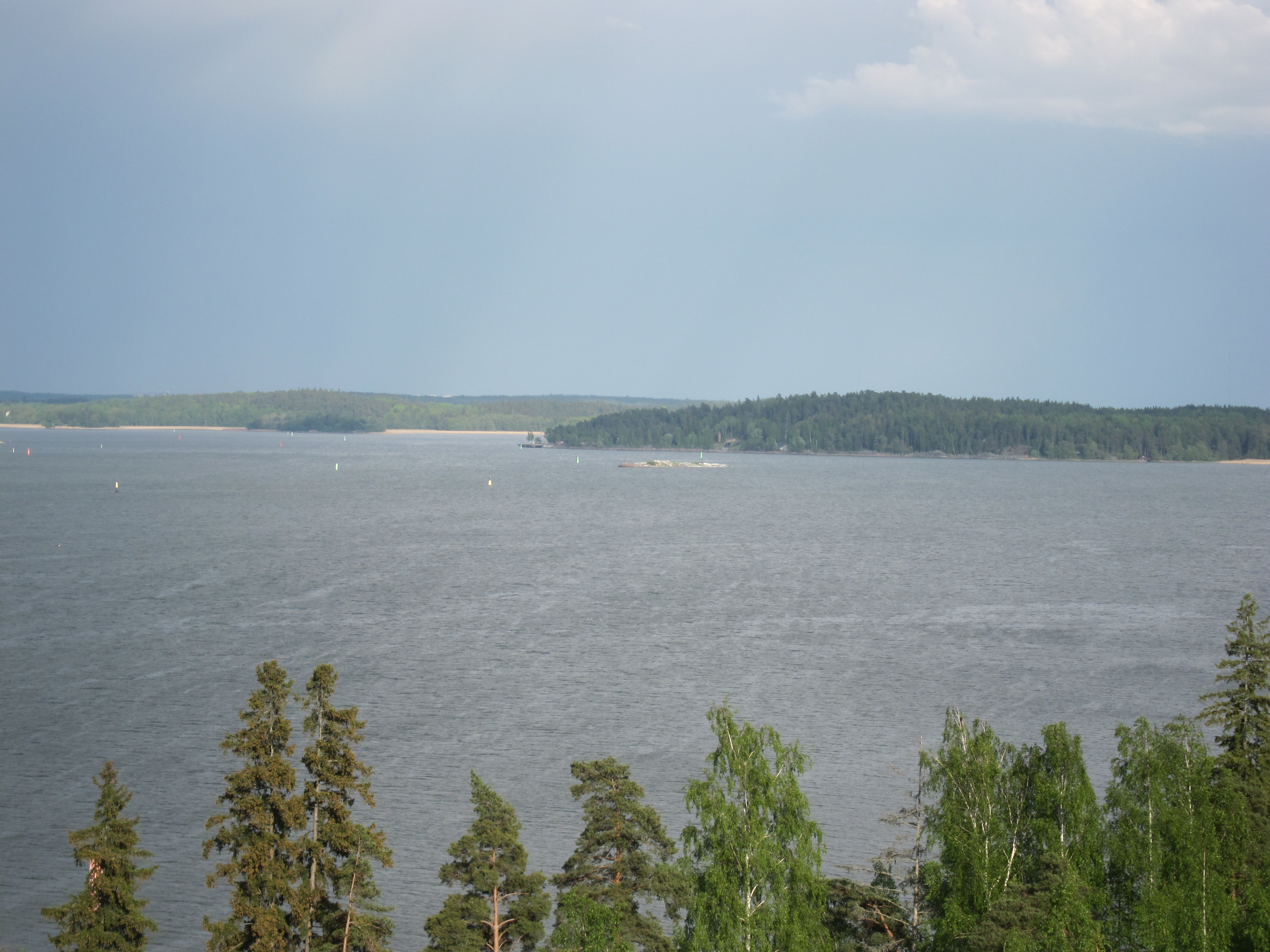 Ruissalo viewed from Ajonpää bedrock in island of Luonnonmaa, Naantali, Finland.